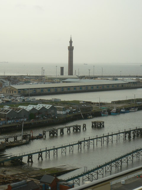 Grimsby Dock Tower From Ross House